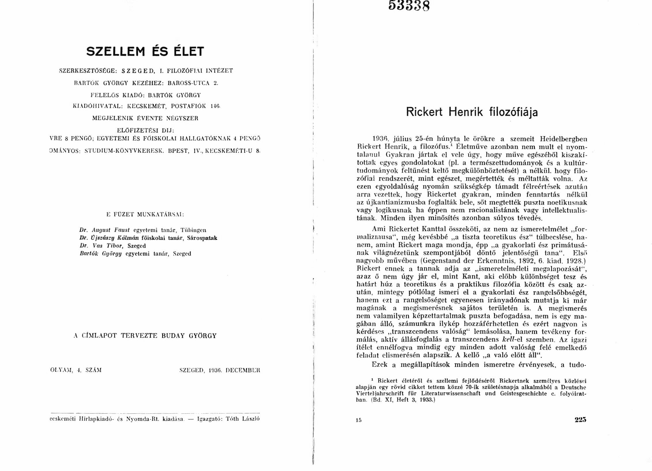 Version of Book-cover of Szellem and Élet 1936 4. booklet and 1. page